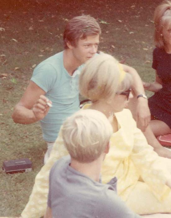 Göran Willlis & Mia Adolphson at garden party on Lars Jacob's 21st birthday Place: Granbacksvägen 5, Danderyd, Sweden